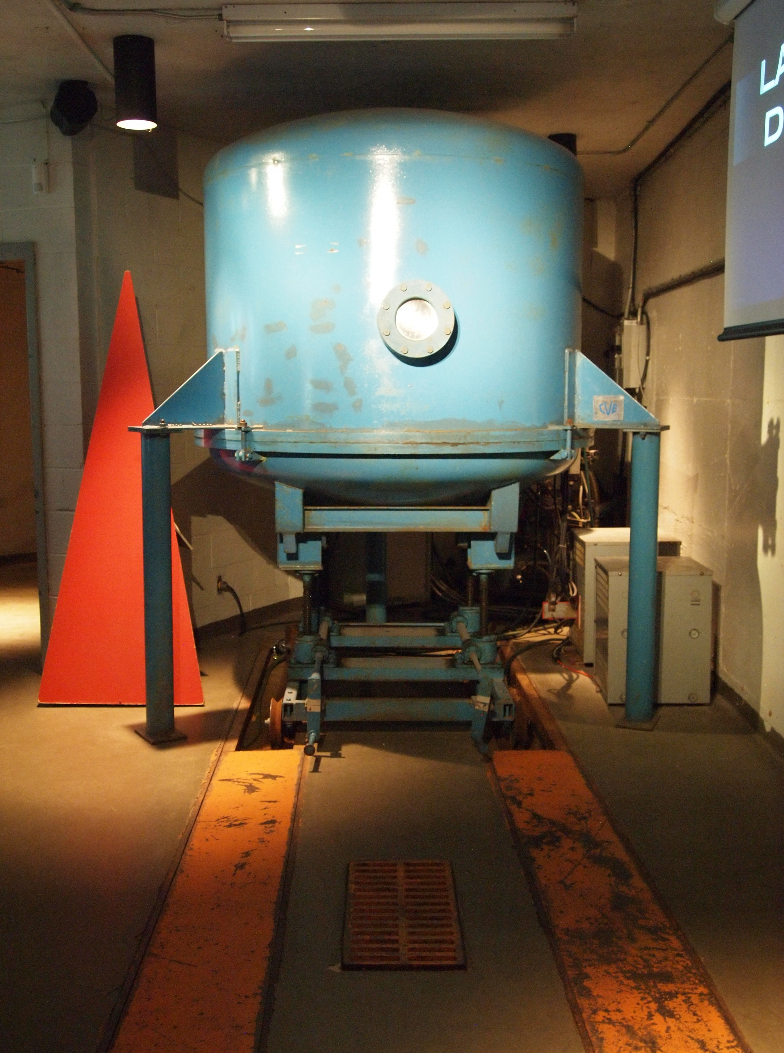 Aluminizing tank at Mont Mégantic Observatory for re-coating telescope mirrors with aluminum.